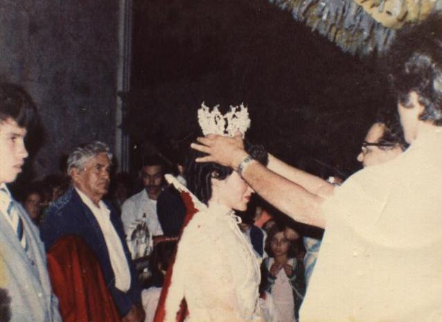 Fair Queen Coronation on Cuervero 1980